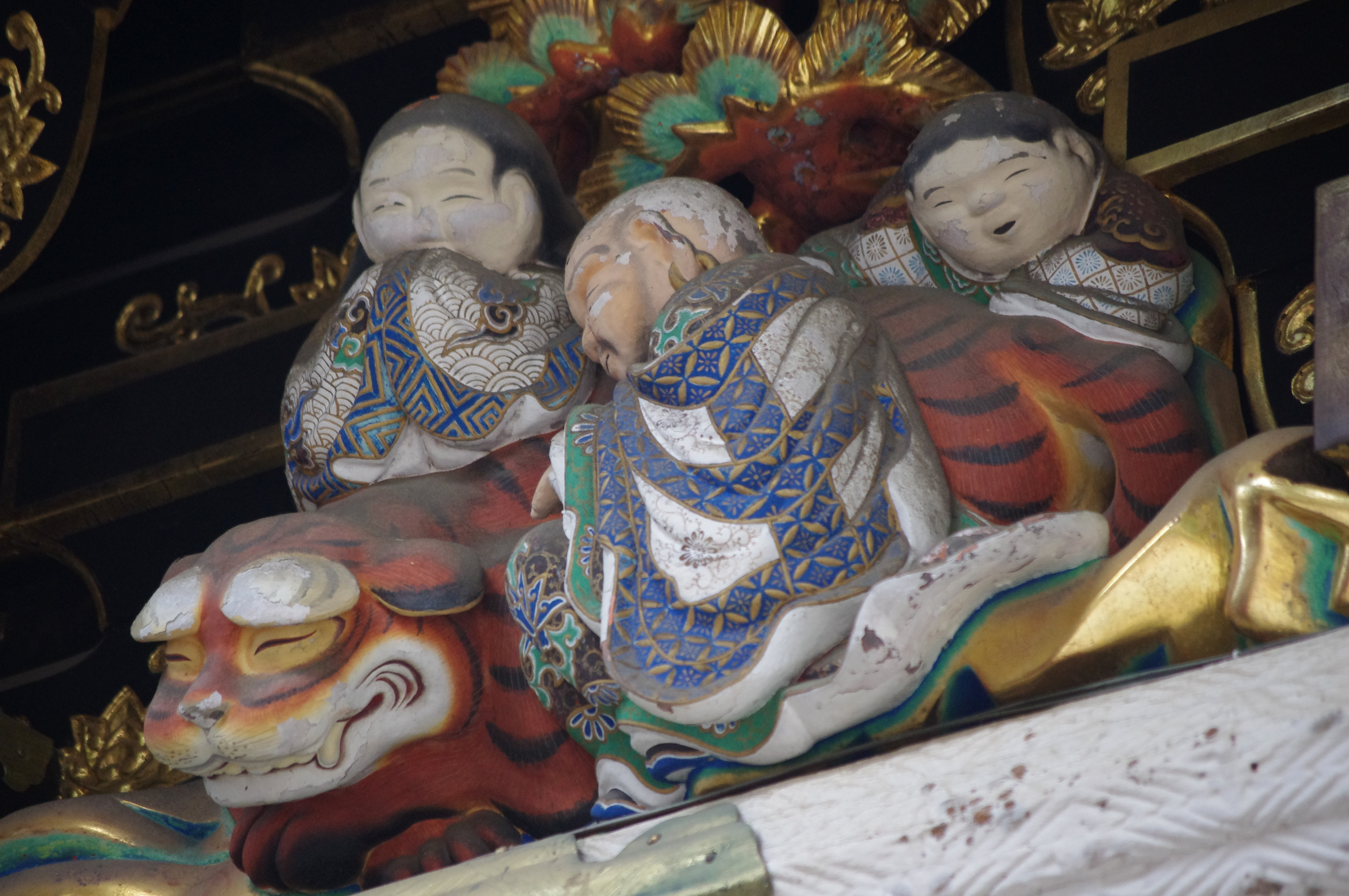 Carvings on Yōmeimon Gate at Tōshō-gū Shrine in Nikko